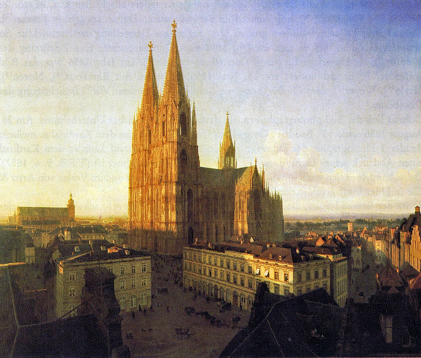 "The Cologne Cathedral" by Carl Emanuel Conrad (1856).